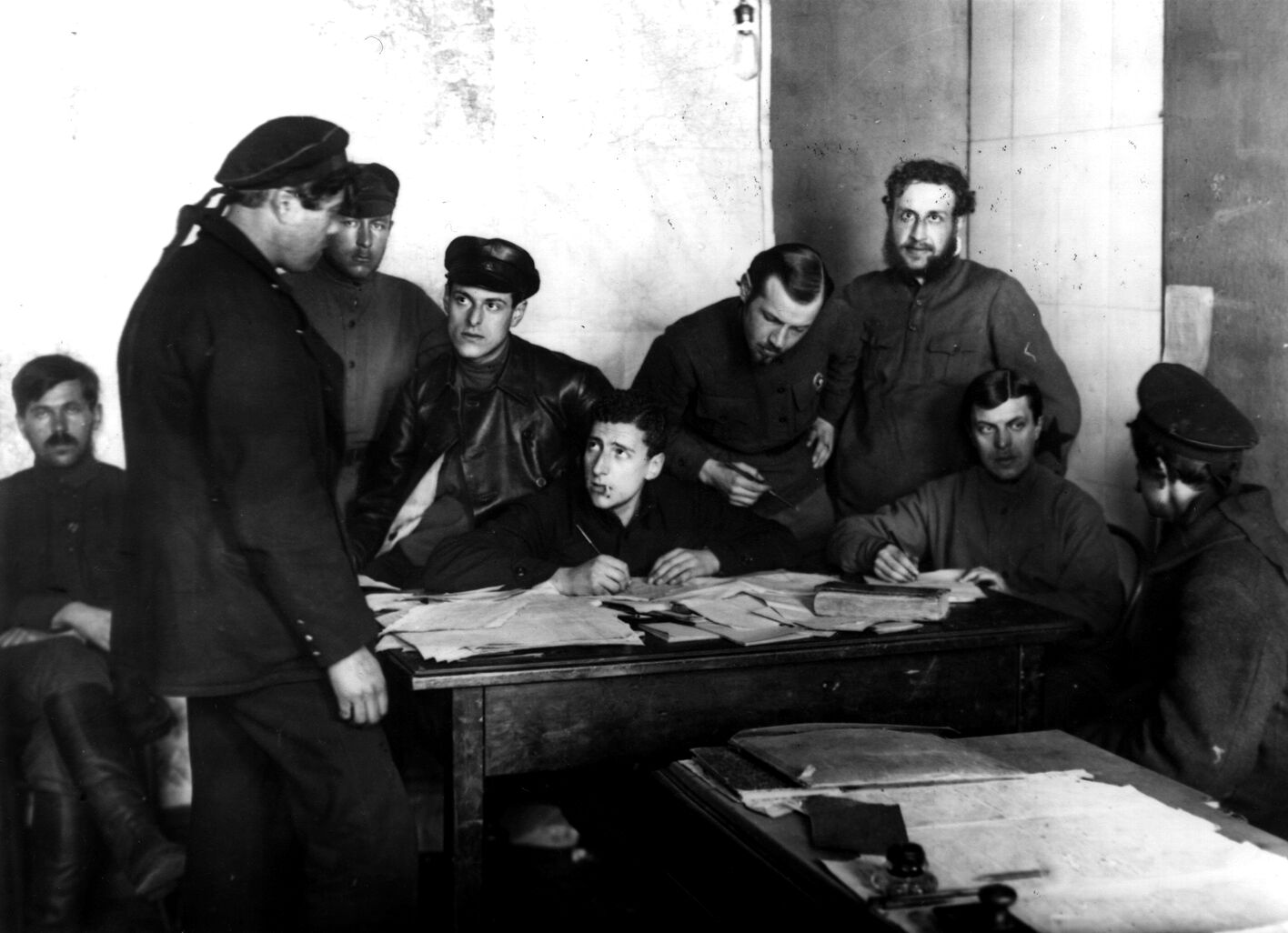 Captured Sailors before Revolutionary Tribunal (1921)